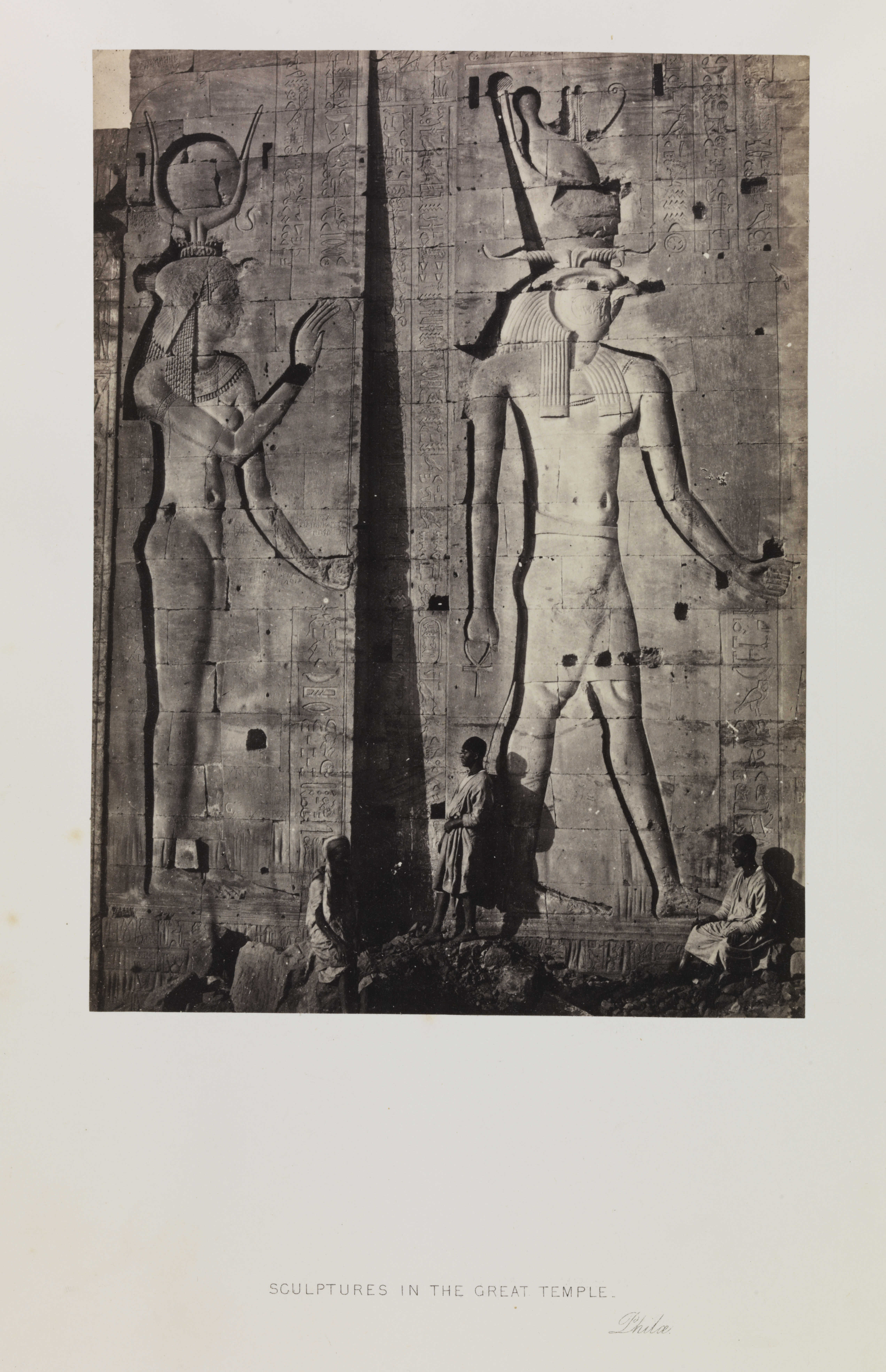 Francis Frith (1822-1898); 'Sculptures in the Great Temple, Philae', 1857; Albumen print; 21 x 15.7cm Don McCullin is one of Britain’s greatest photographers. For his latest project he has photographed archaeological remains around the Mediterranean. On a recent visit to the Museum, to coincide with the opening of a major exhibition of his work, Don made a personal selection of photographs from the National Media Museum's collection, revealing how these sites were recorded by earlier photographers such as Francis Frith and Maxime Du Camp. Don McCullin: "What Francis Frith has said to himself is - I need to show the scale of these astounding images carved in stone and therefore it would be good to get some living human beings in there - and he's done just that. You can see that there's a slight sense of staging but it does no harm. It's really a beautiful picture and it offers us so much information. That's one of the great things about these photographers, the quality of their work, their composition, allows us to look forever into these extraordinary prints."